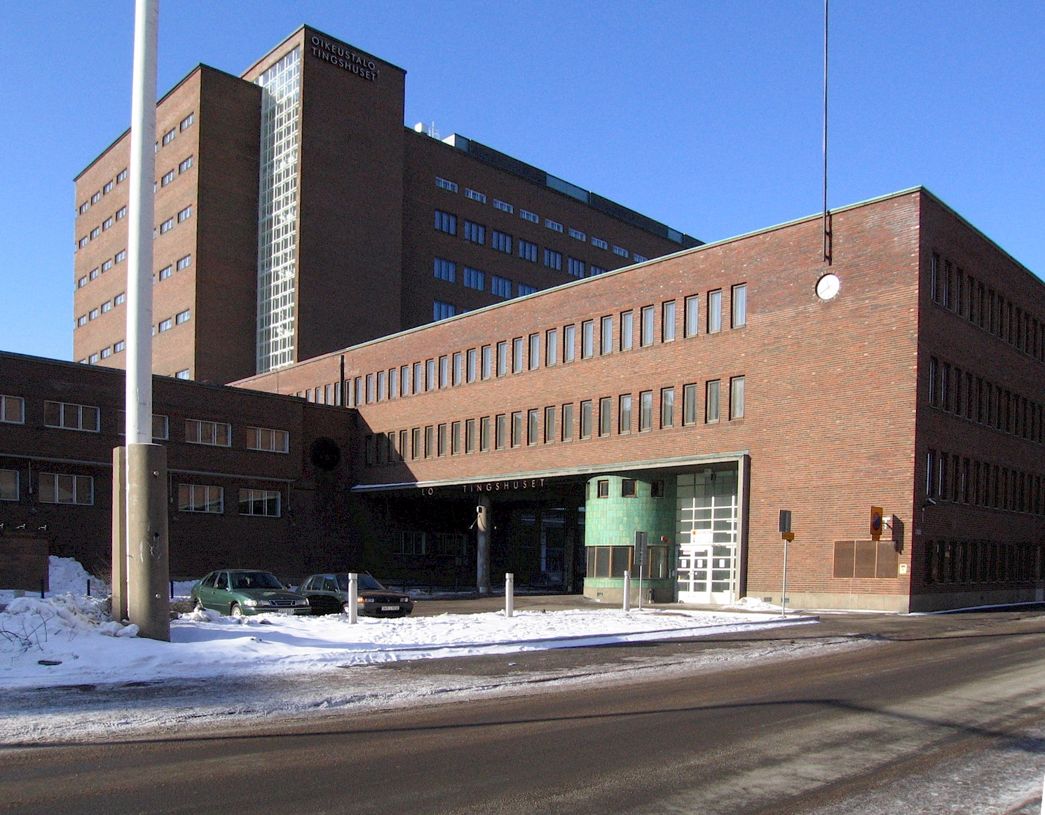 Helsinki Court House, former spirits distillery